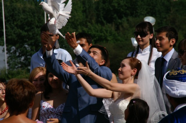 Wedding party in Independence Square, Almaty